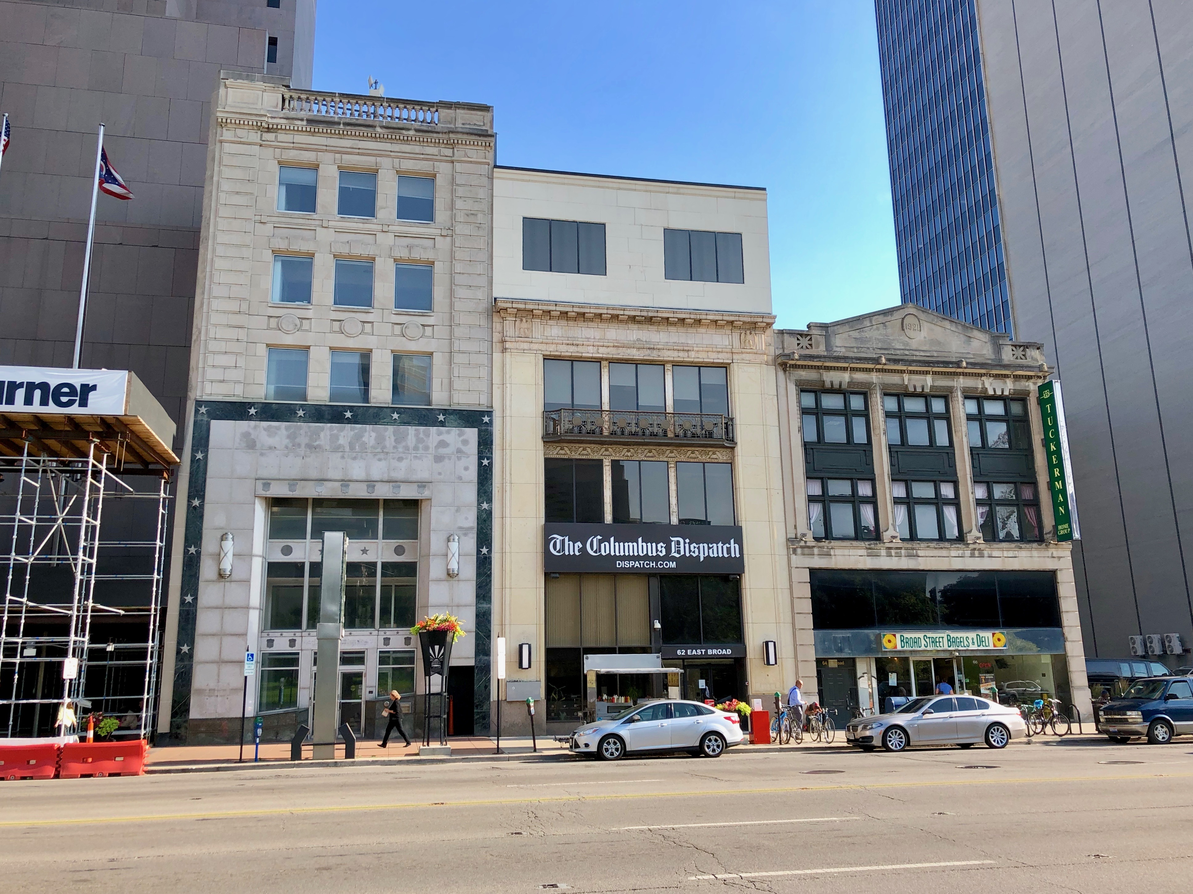 Image taken in Columbus, Ohio, by User:W lemay (Warren LeMay). May require further categorization.